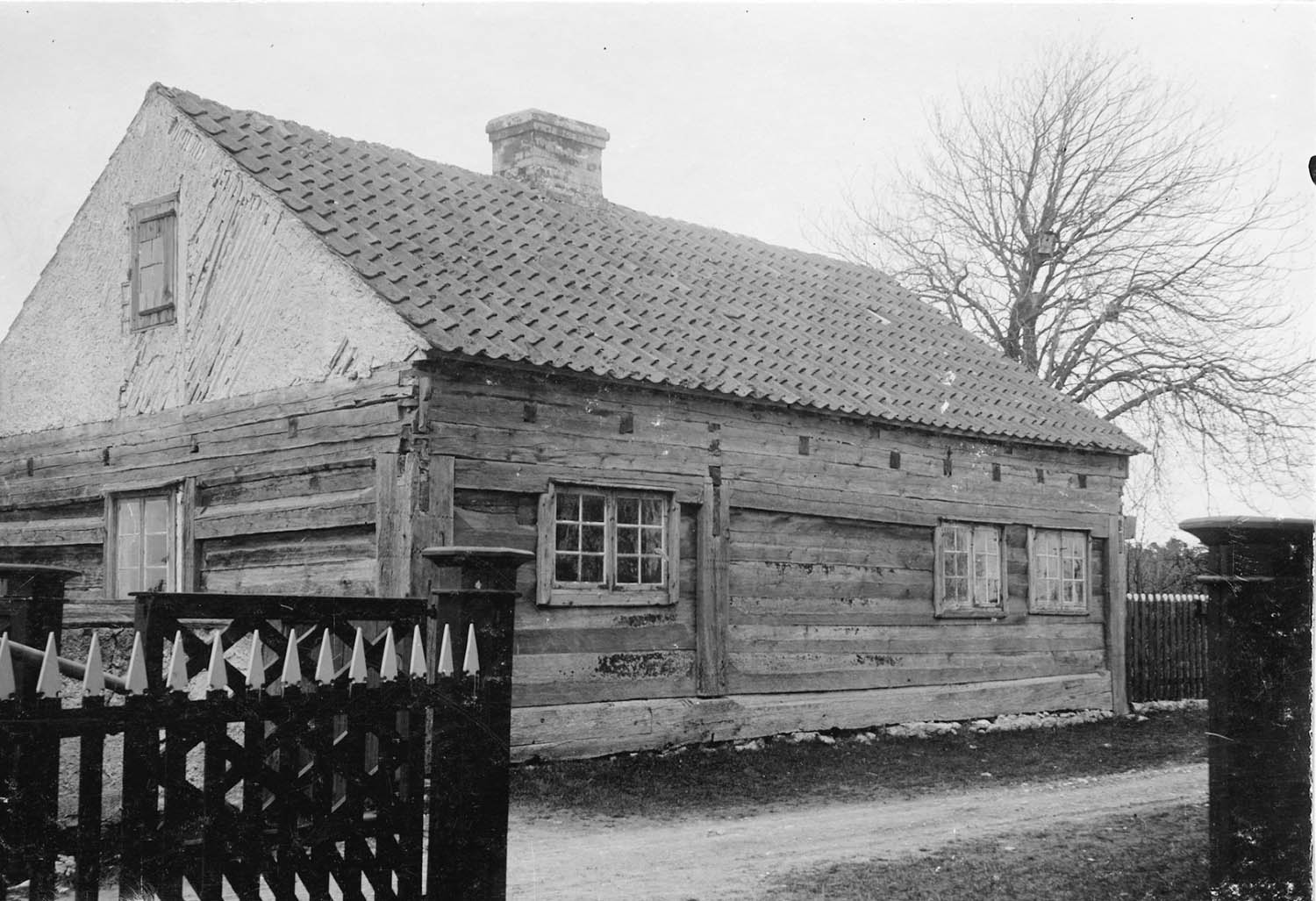 depicted place: Gotland, Gotlands norra hd, Fleringe, Lunderhaga (Sverige (SE))